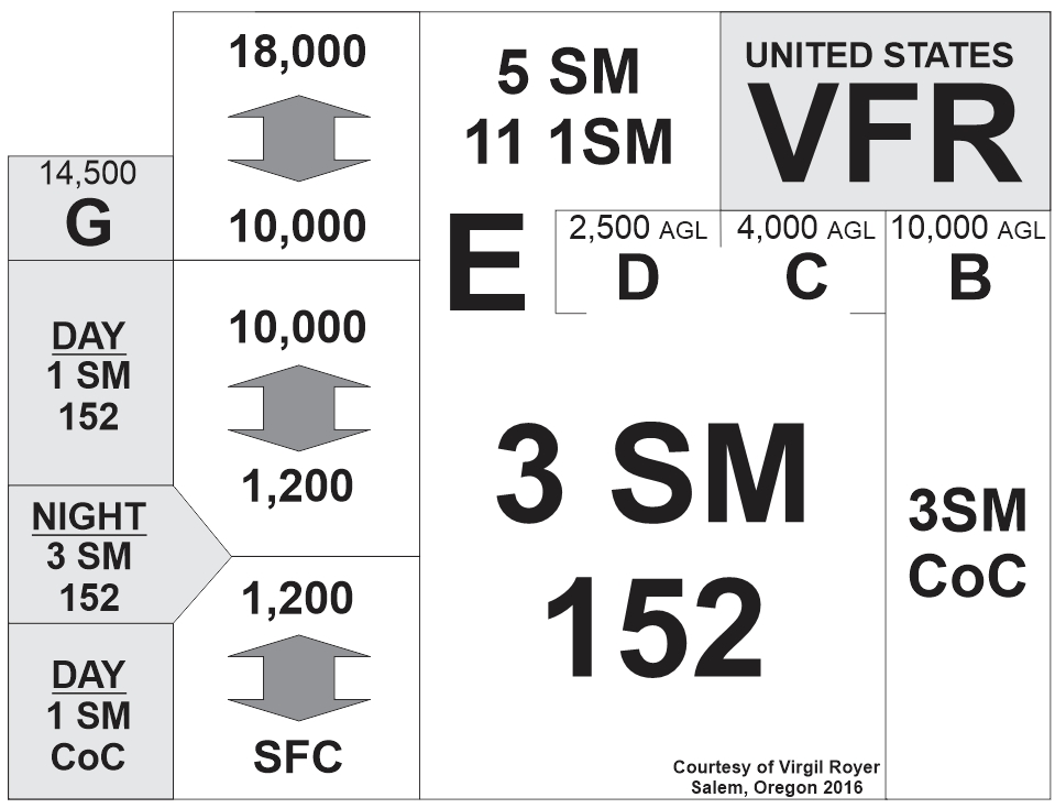 VFR / VMC visibility requirements for various airspaces in the US